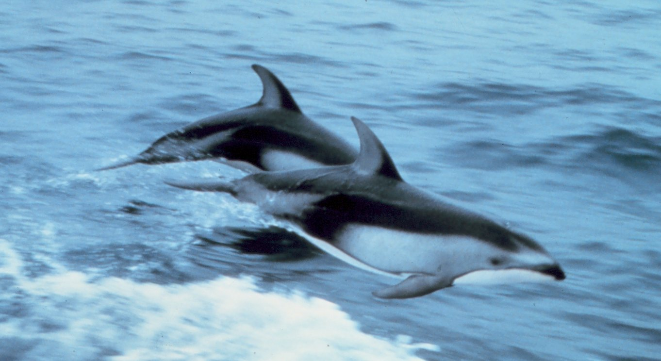 Crop of file in filename